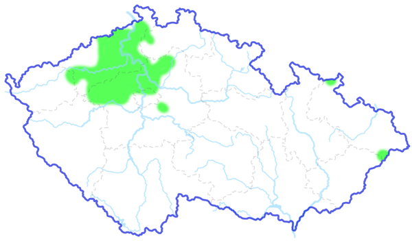 Distribution of black rat (Rattus rattus) in the Czech Republic